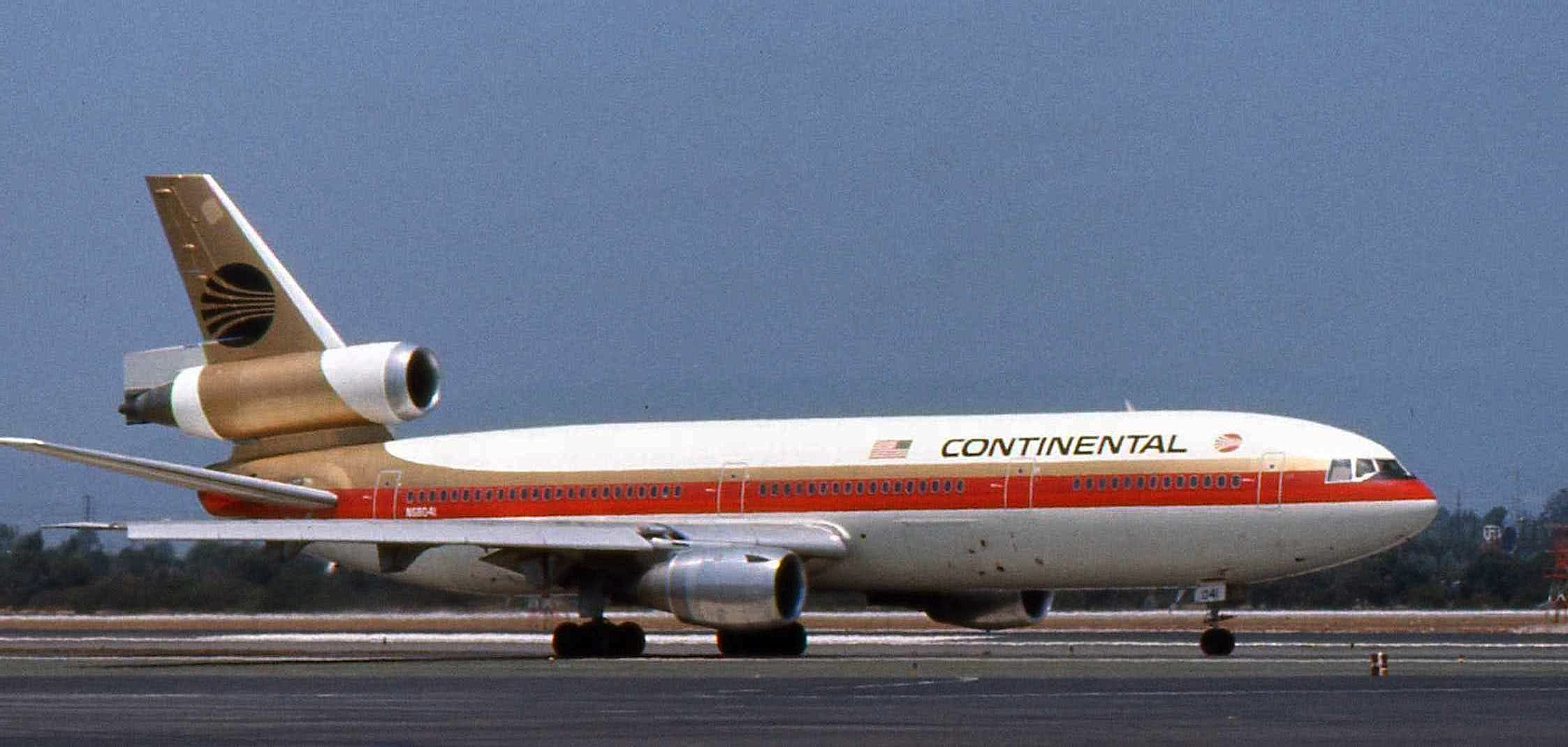 Continental Airlines DC-10 10, N68041, c/n46900 was the first DC-10 to be delivered to Continental on April, 14, 1972.